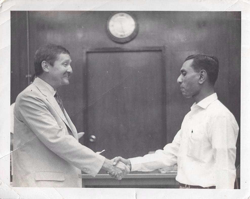 Mr.Mohamed Zakariya